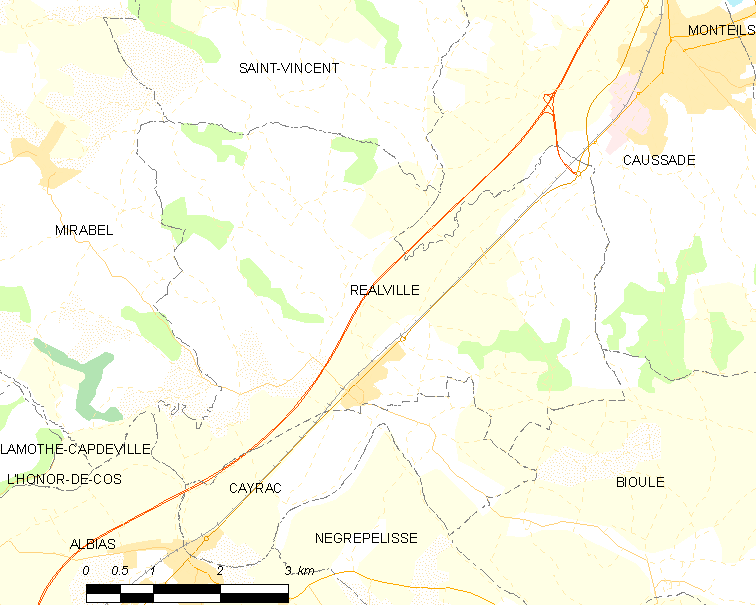 Map of French municipality Réalville